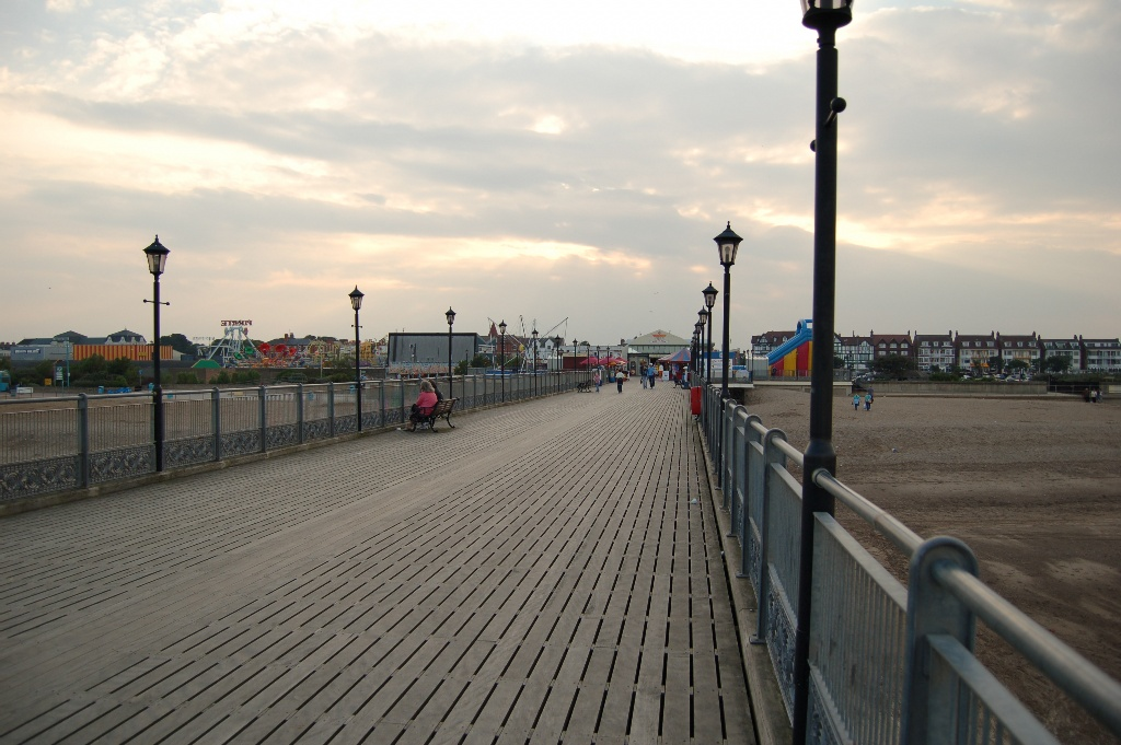 View of Sekegness from the pier. Lincolnshire. UK.